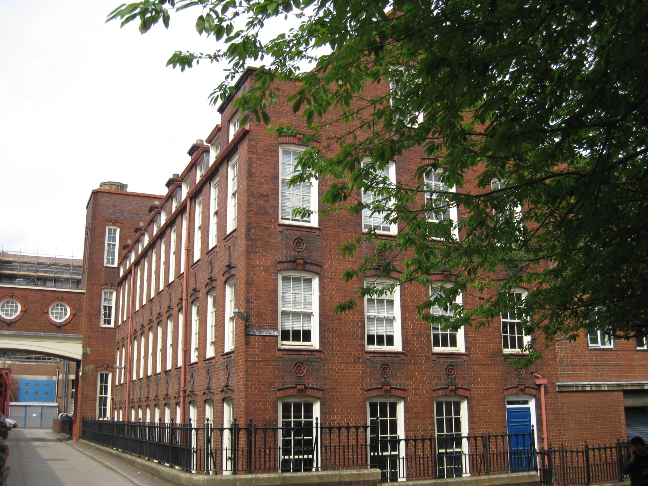 Sheffield Technical School, now part of the St George's Complex of buildings making up the Engineering Faculty of the University of Sheffield. The bridge on the left connects to the Mappin Building. Circa 1903. Looking down Abney Street (under bridge) with Badger Lane to the right.